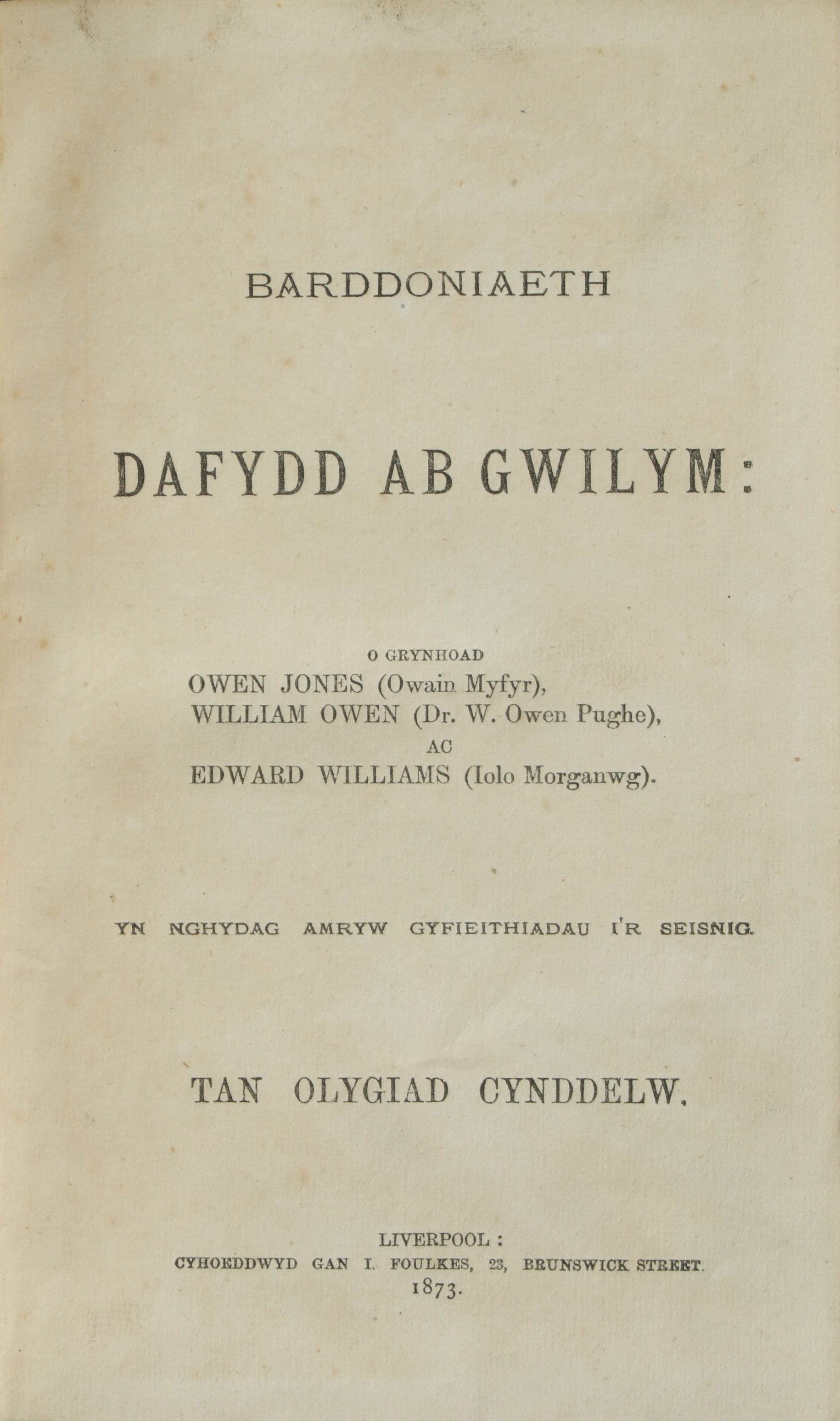 Title page of Barddoniaeth Dafydd ab Gwilym ('The Poetry of Dafydd ap Gwilym'), a new edition by Robert Elis (Cynddelw), published by Isaac Foulkes in 1873, of a seminal work originally published in 1789. In addition to genuine poems, it contains forgeries of Dafydd's poems by Iolo Morganwg.